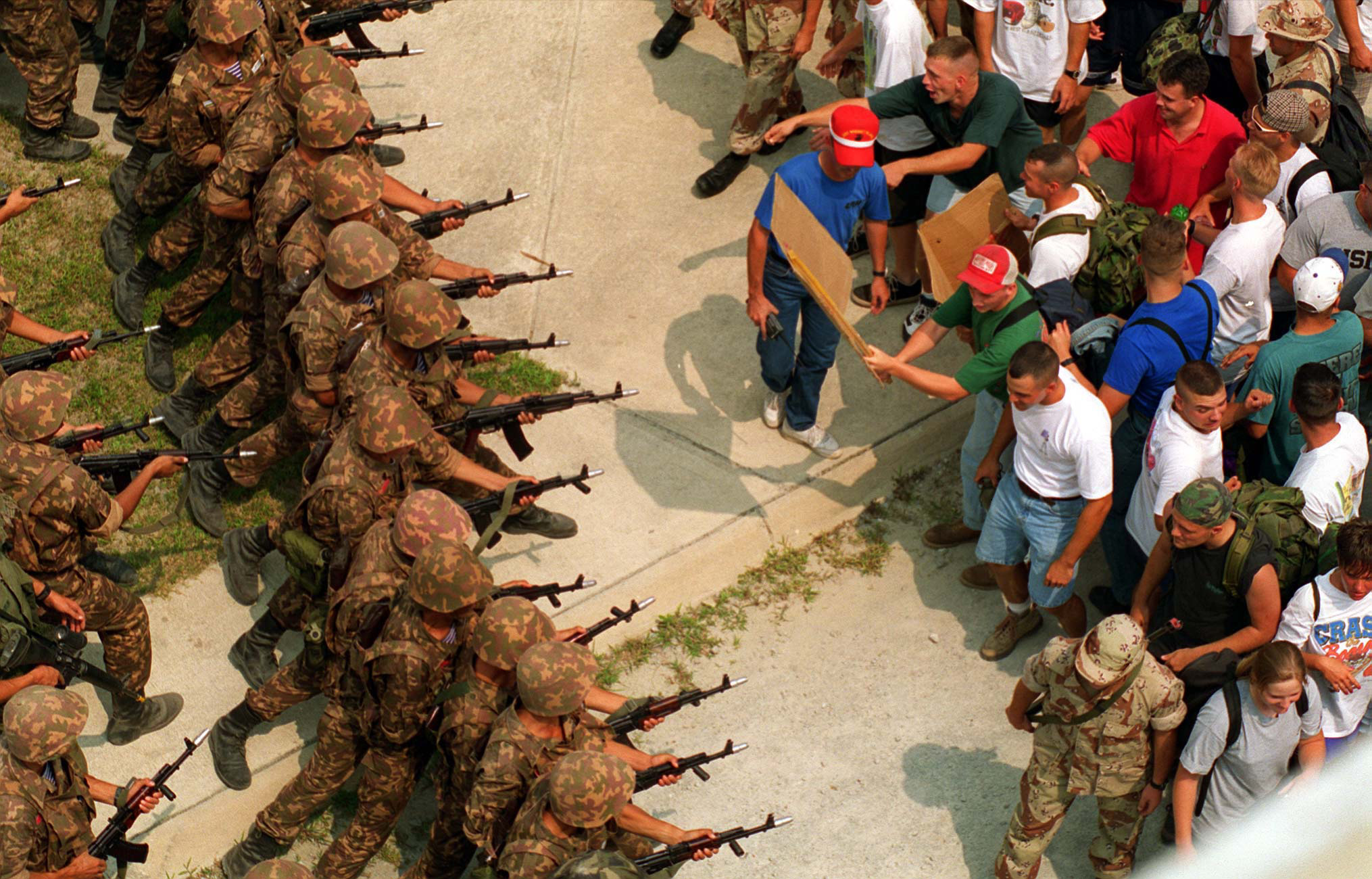 Troops from Company Six move protesters back in a simulated civil disturbance during a Military Operation in Urban Terrain, Security and Civil Disturbance Operations Situational Training Exercise at Camp Lejeune, N.C., on Aug. 24, 1996 as part of Cooperative Osprey '96. Cooperative Osprey '96 is a NATO sponsored exercise as part of the alliance's Partnership for Peace program. The aim of the exercise is to develop interoperability among the participating forces through practice in combined peacekeeping and humanitarian operations. Three NATO countries and 16 Partnership for Peace nations are taking part in the field training exercise.